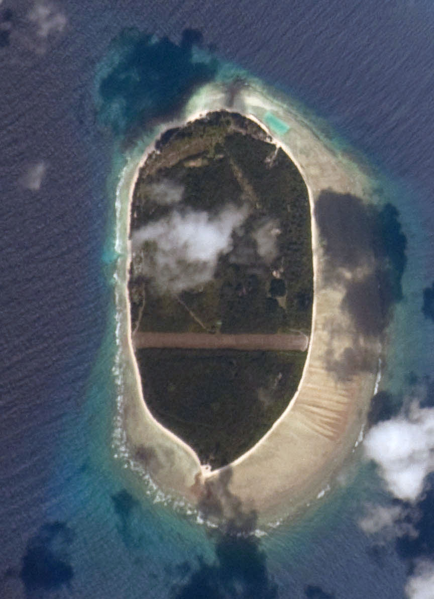 NASA astronaut image of Saint-Joseph Island and Arros Island( Amirantes Group, Seychelles) in the Indian Ocean